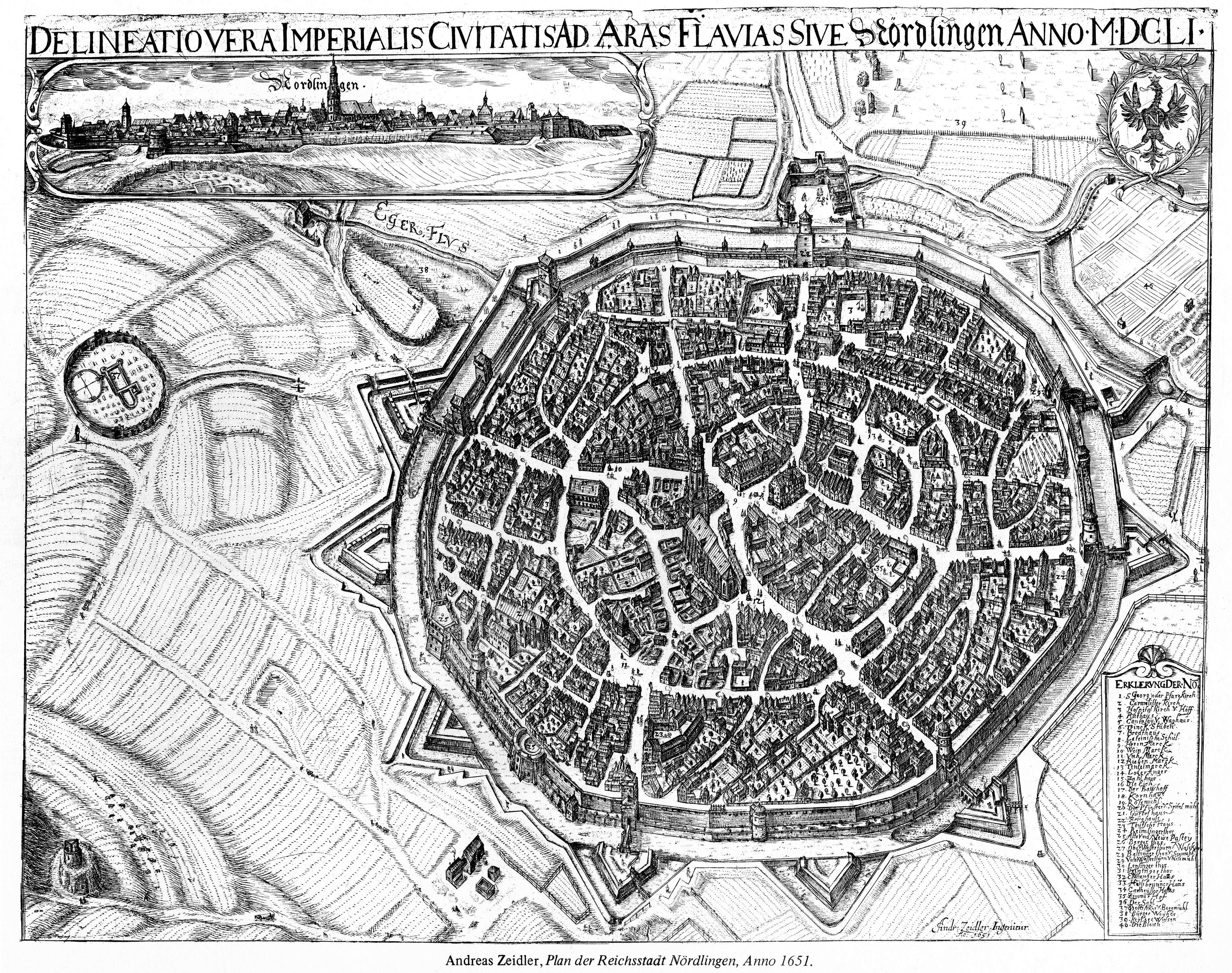 Historical map of Nördlingen from 1651 by Andreas Zeidler